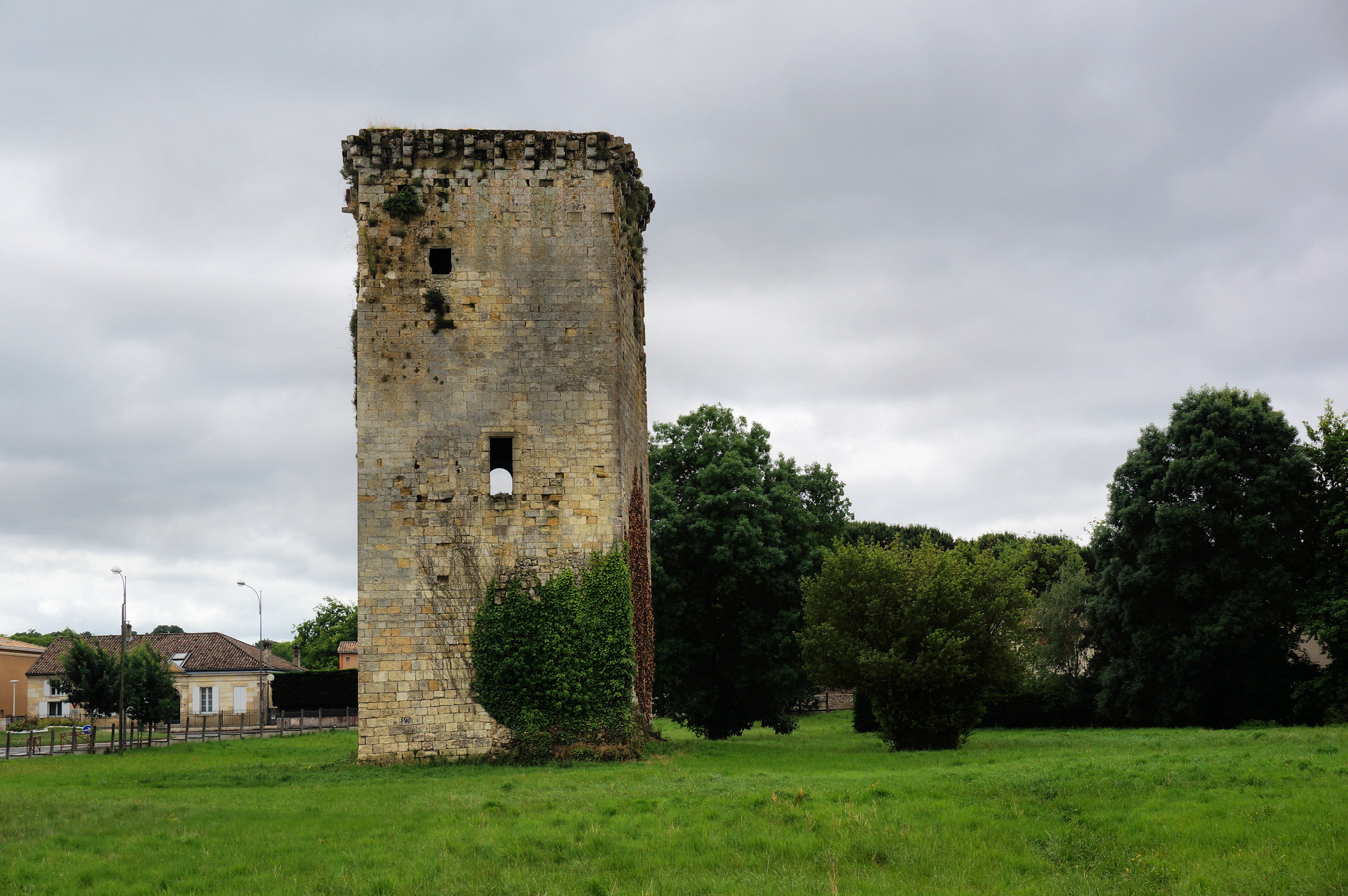 Veyrines stone keep in Mérignac, circa 14th century (France, Gironde).